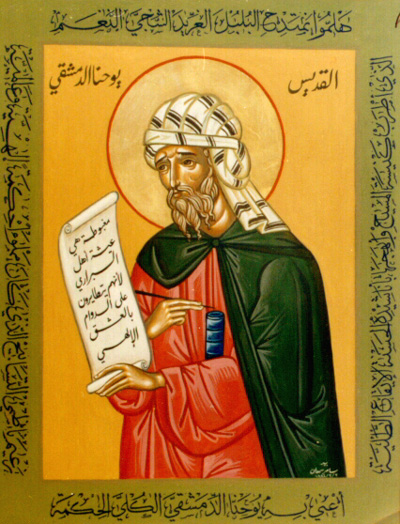 John of Damascus, arabic icon (surrounded by the words of his hymn in Arabic).